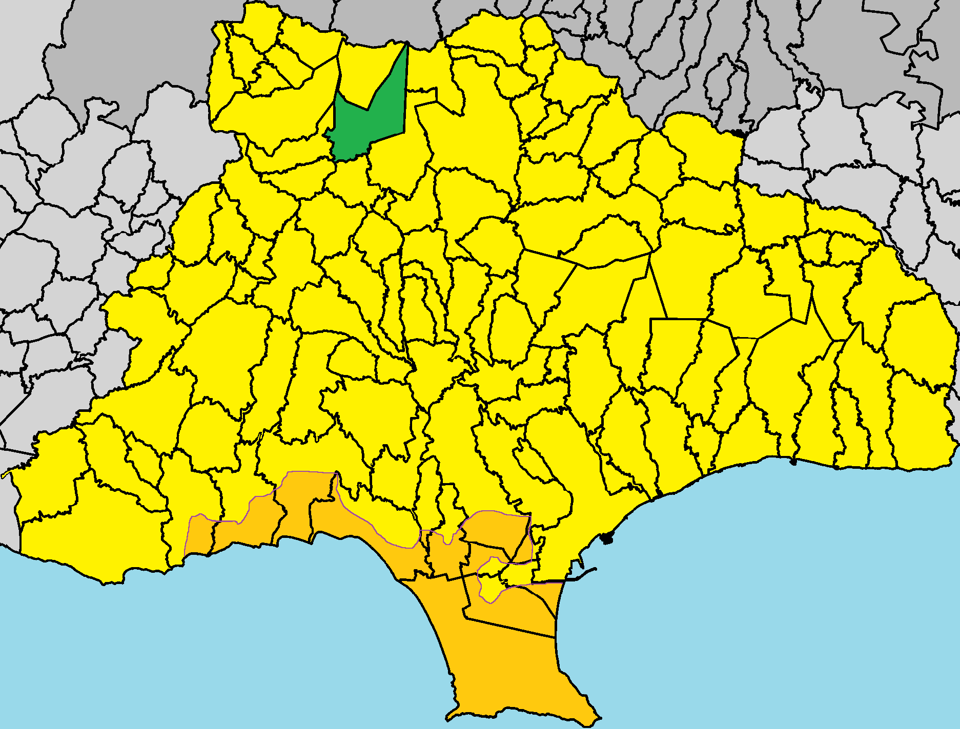 Platres in Limassol District.